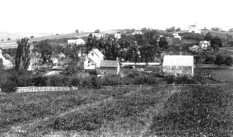 The village of Grand-Pré, Nova-Scotia.